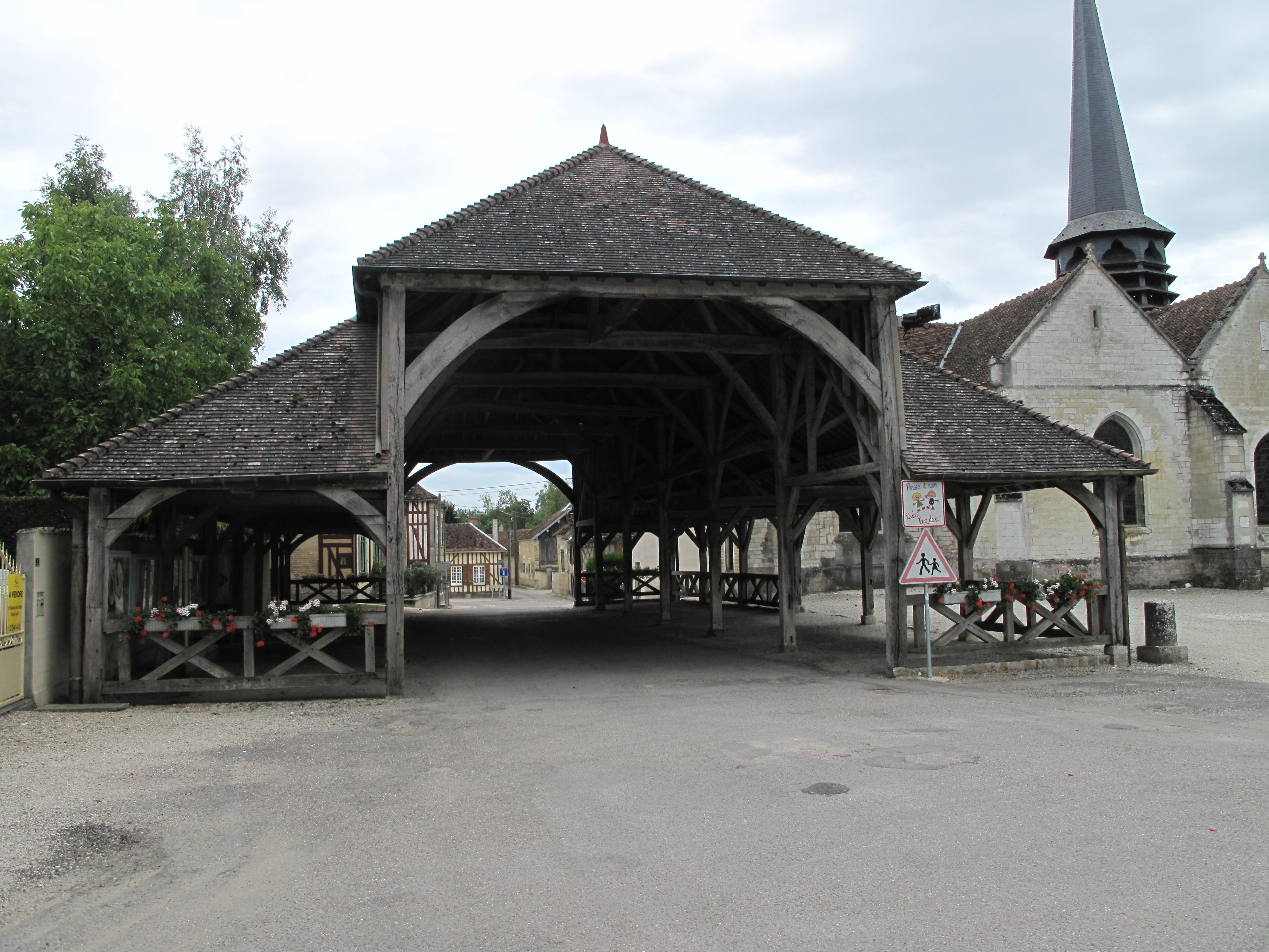 The market hall of Lesmont (Aube, France).